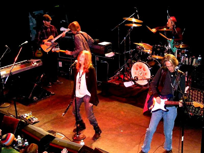 Patti Smith and Her Band performing at Bowery Ballroom, New York City, United States. (Left to right) Jackson Smith on guitar, Tony Shanahan on bass, Patti Smith on vocals and clarinet, Lenny Kaye on guitar and Jay Dee Daugherty on drums.